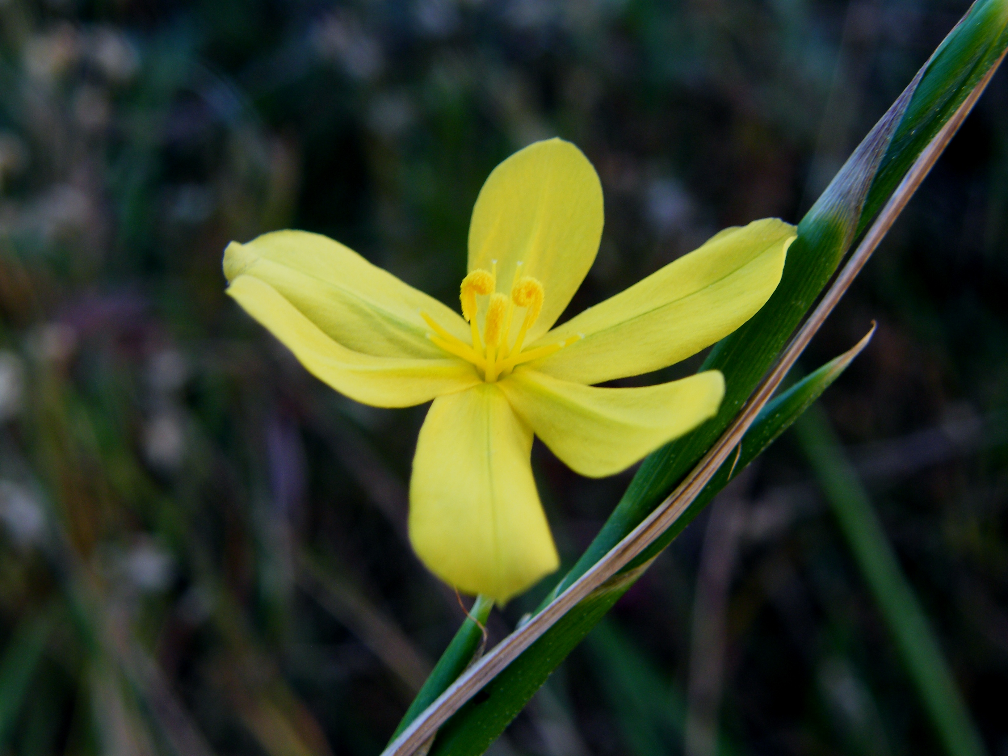 Moraea lewisiae subsp lewisiae found in dry sandstone or clay flats or slopes.